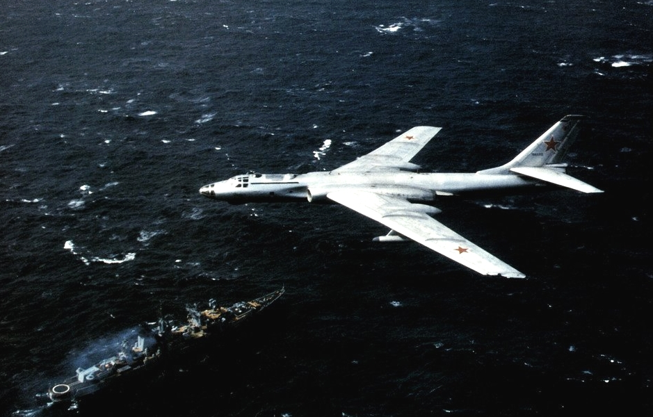 A Soviet Tupolev Tu-16 (NATO reporting code "Badger") in flight in 1984 above a Nikolaev class cruiser (NATO reporting code "Kara"). The photo was taken from a U.S. Navy aircraft of Carrier Air Wing 2 (CVW-2). CVW-2 was assigned to the aircraft carrier USS Kitty Hawk (CV-63) for a deployment to the Western Pacific and the Indian Ocean from 13 January to 1 August 1984.